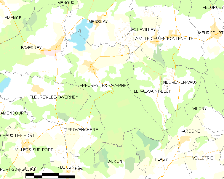 Map of French municipality